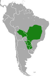 Black Howler (Alouatta caraya) range